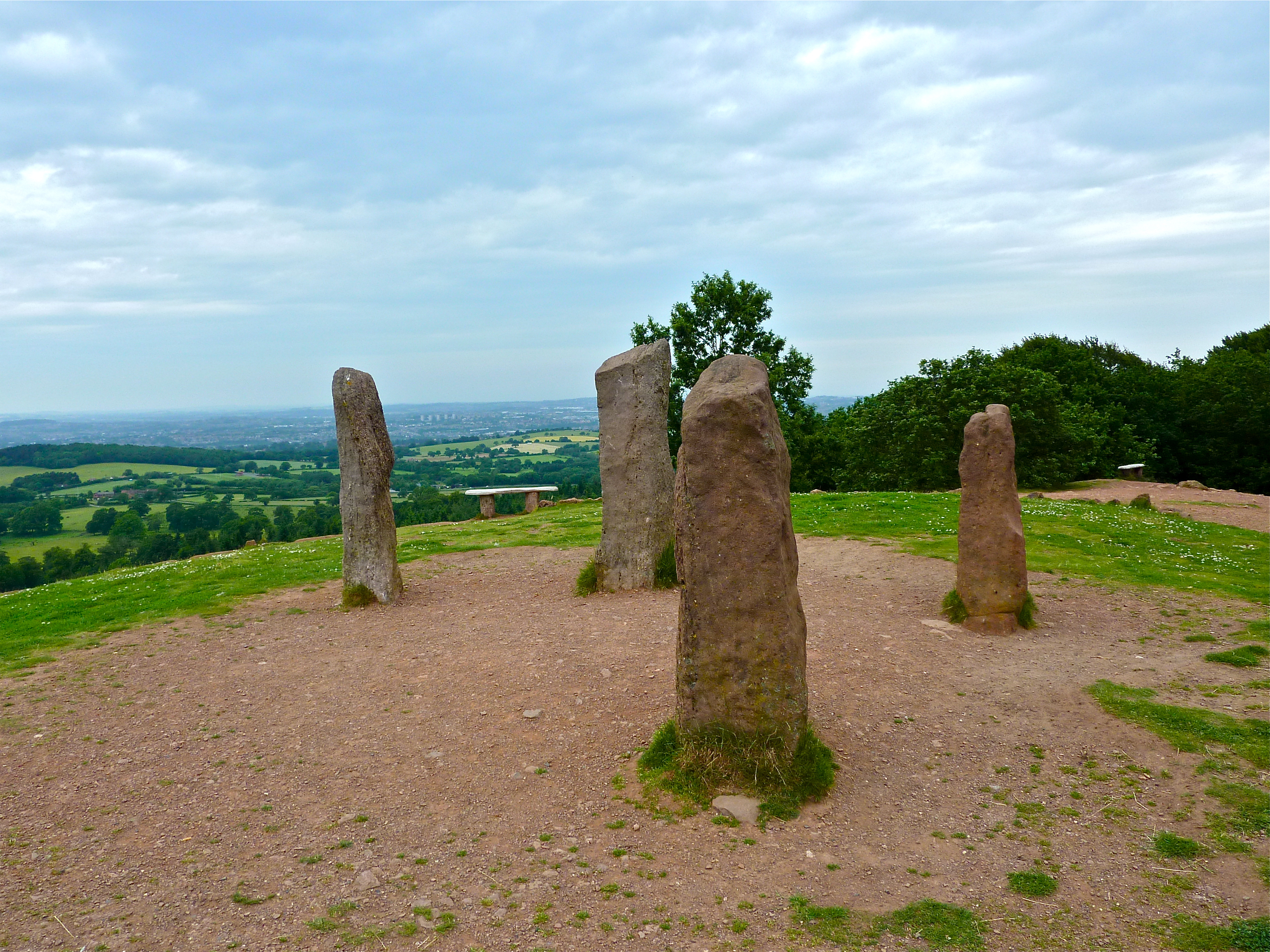 A photo of the four stones on the top of the Clent Hills, Clent, Worcestershire, UK at 52° 25′ 15.29″ N, 2° 5′ 56.12″ W. Originally, they were a feature of the Hagley Hall Estate owned by Lord Cobham, from the 18th century. They were created as a folly to be viewed from down the valley by visitors. An all-ability path climbs up from Nimmings Wood car park to a viewing platform near the stones.